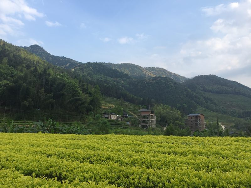 Bai Ji Guan field in Wuyishan, China shortly before harvest. The light green leaves are characteristic of this cultivar.